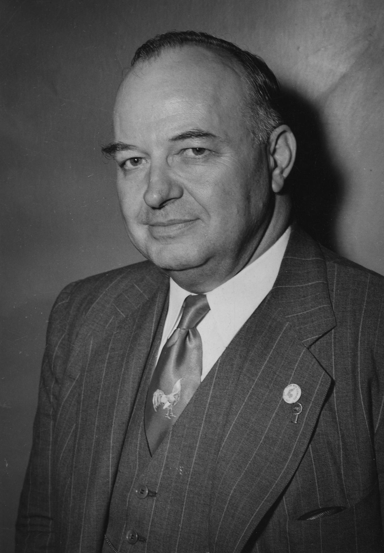 Kentucky Congressman, Governor, and Senator Earle C. Clements